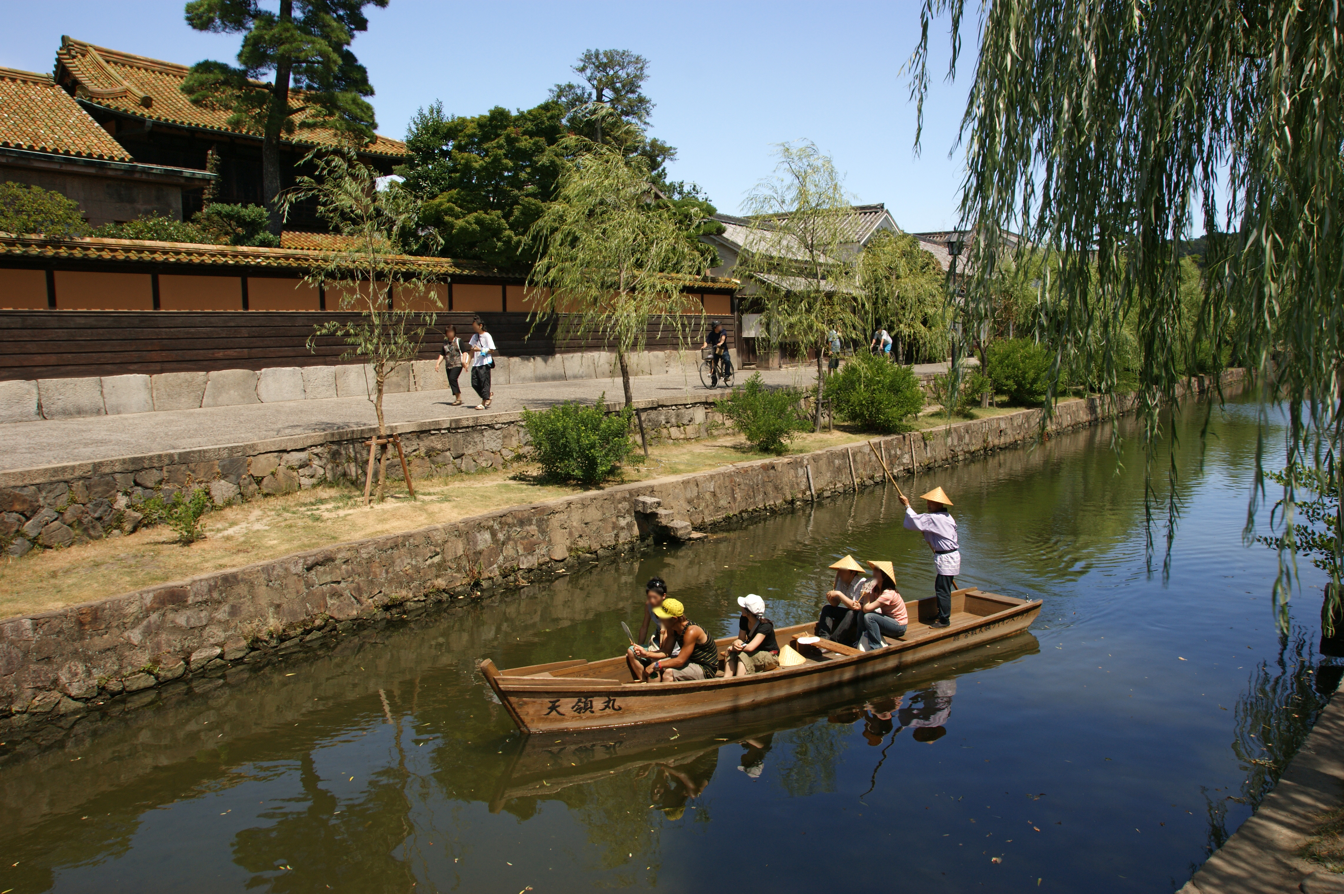 Kurashiki Bikan historical quarter in Kurashiki, Okayama prefecture, Japan